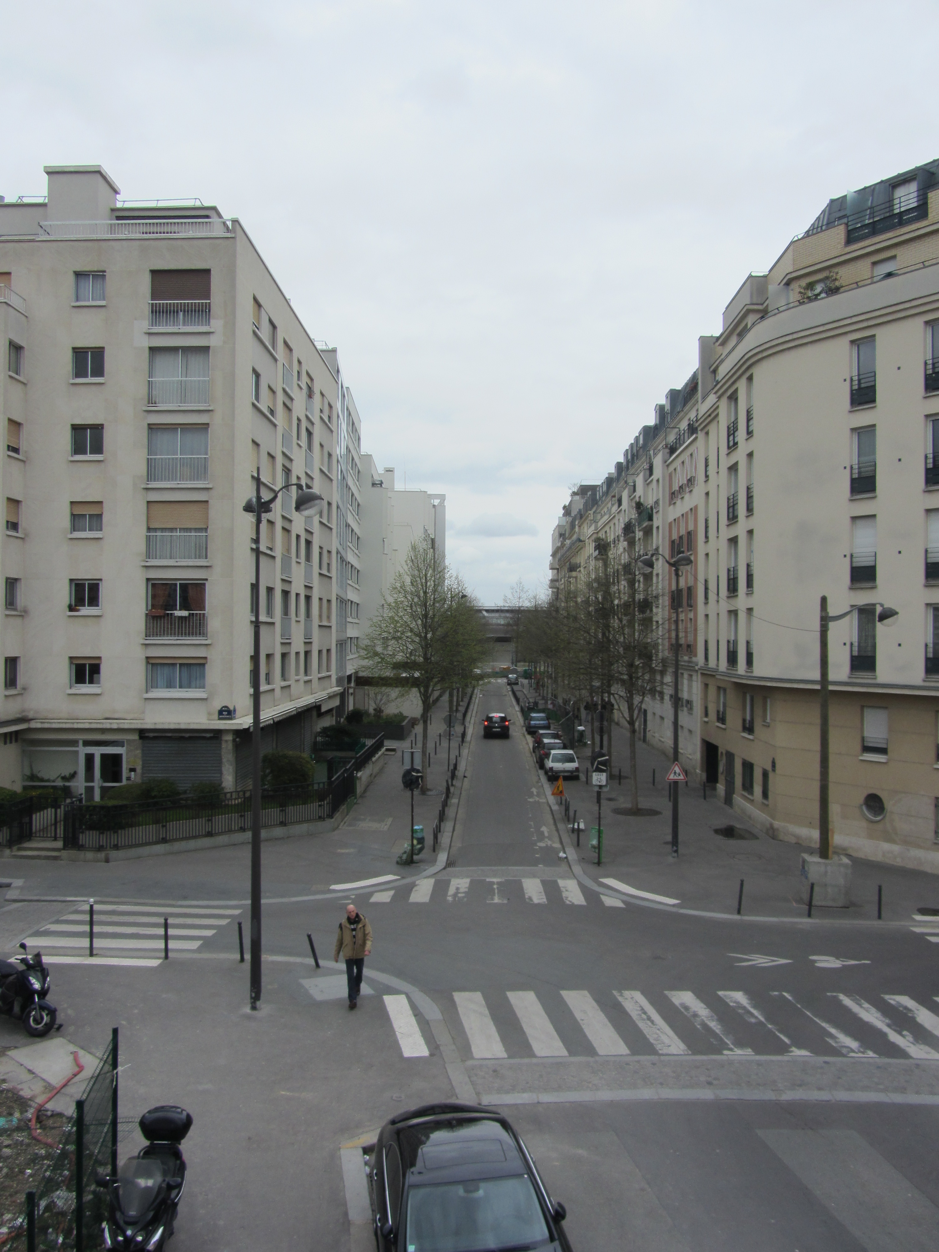 This document was produced using the Canon PowerShot SX230 HS lent by Wikimedia France.